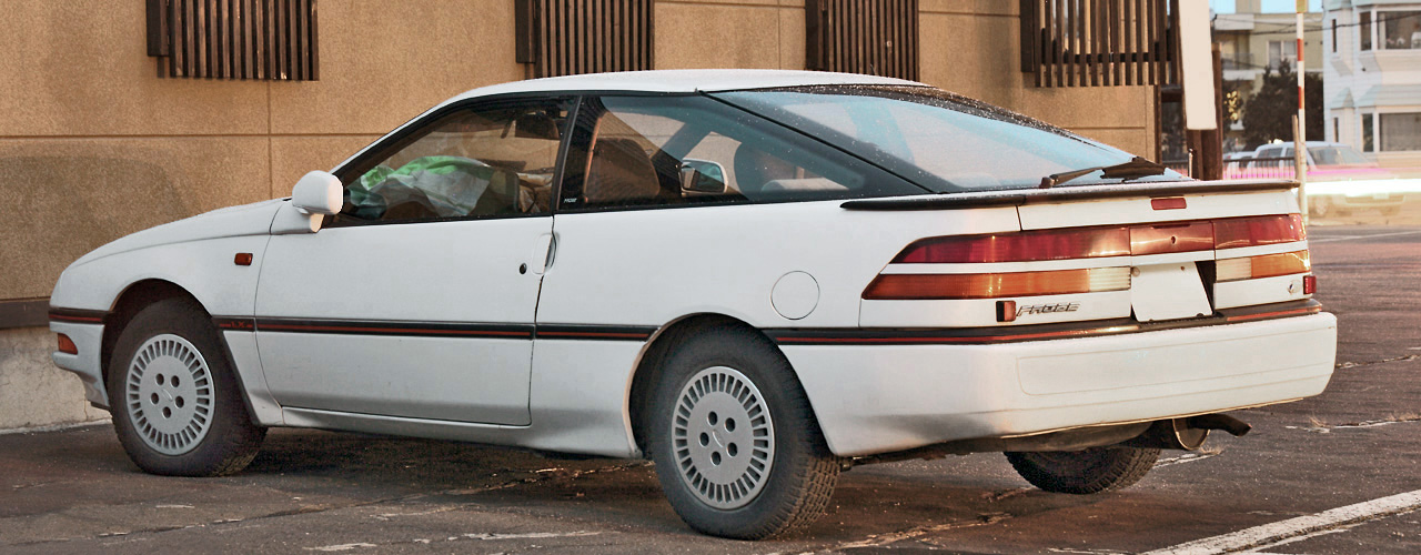 Ford Probe LX (Japan spec)